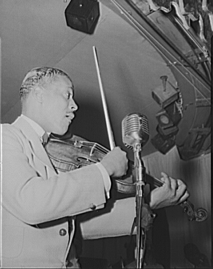 Ray Nance, trumpet player and violinist of Duke Ellington's orchestra, at the Hurricane Ballroom. New York, New York.